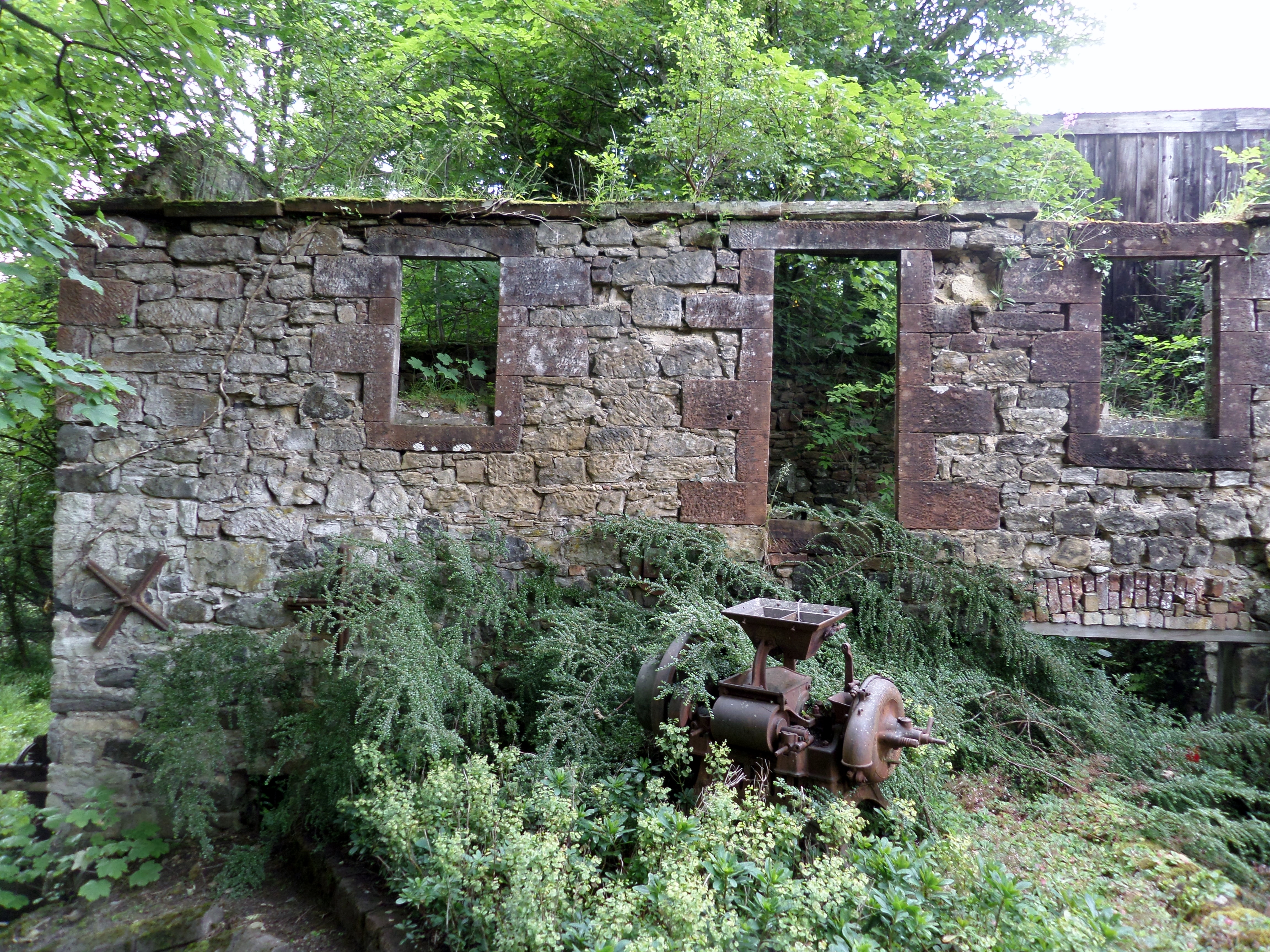 Bello Mill frontage, Lugar, Scotland. William Murdoch was born at Bello Mill Cottage.